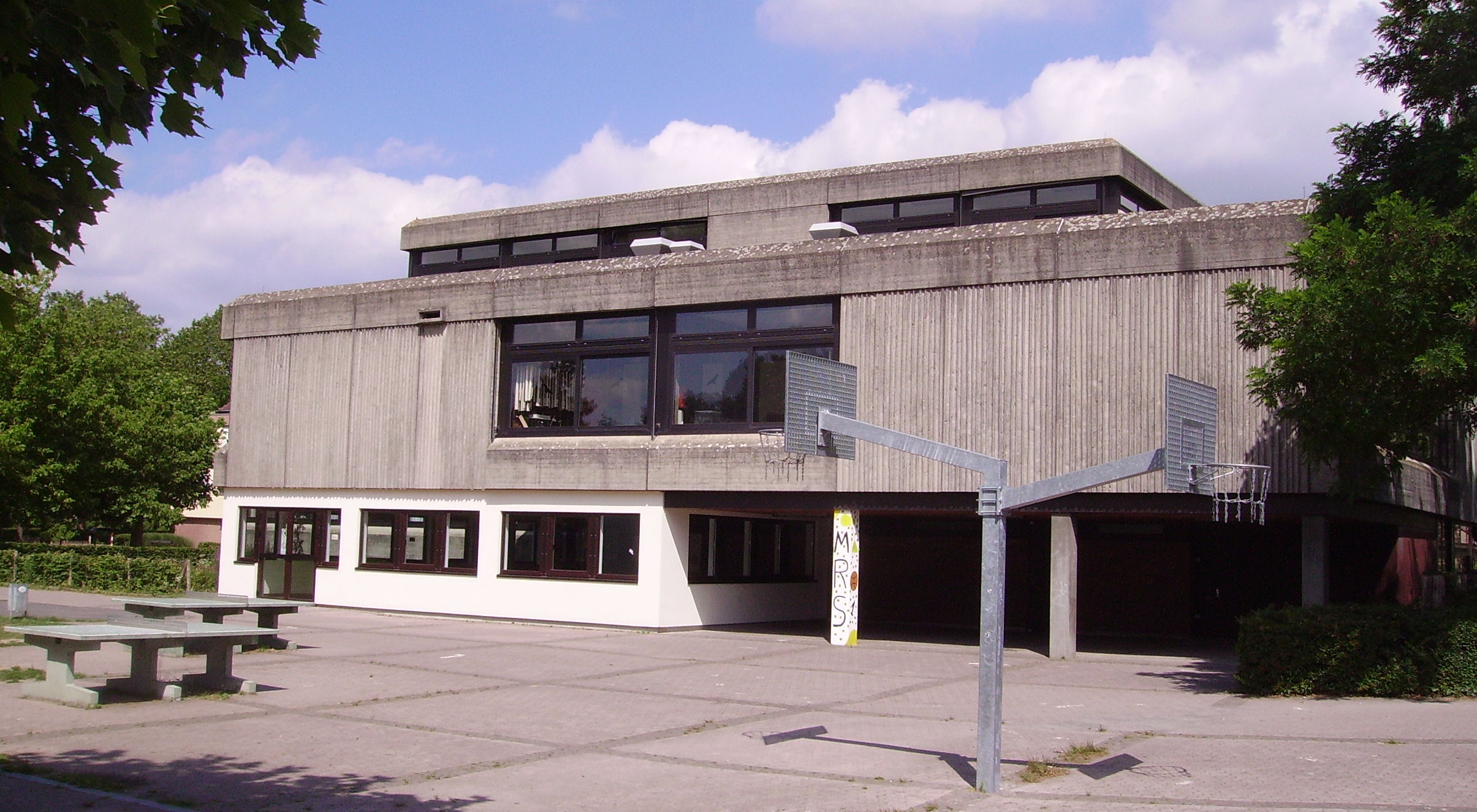 school in Ladenburg, Germany